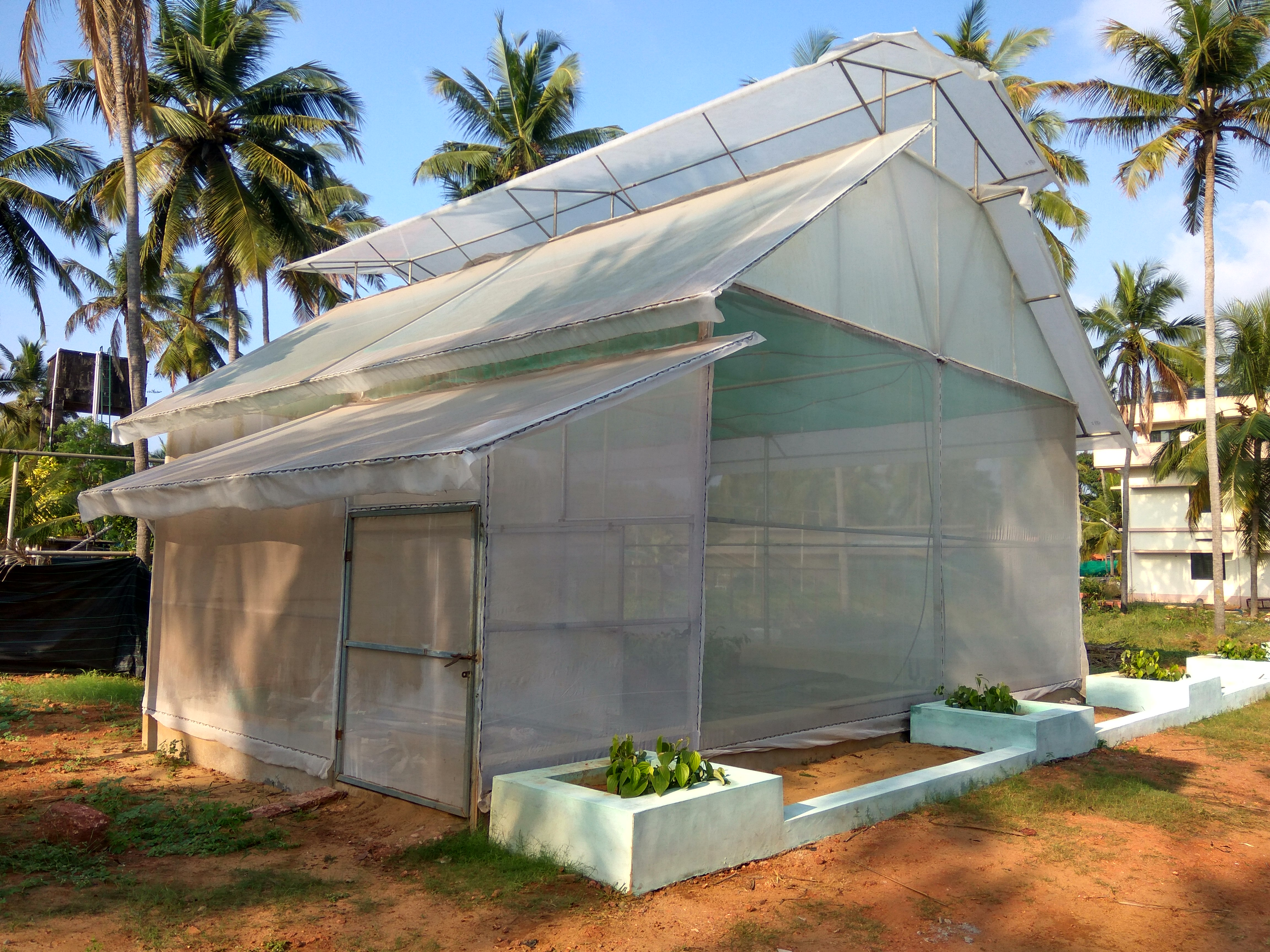 picture of polyhouse